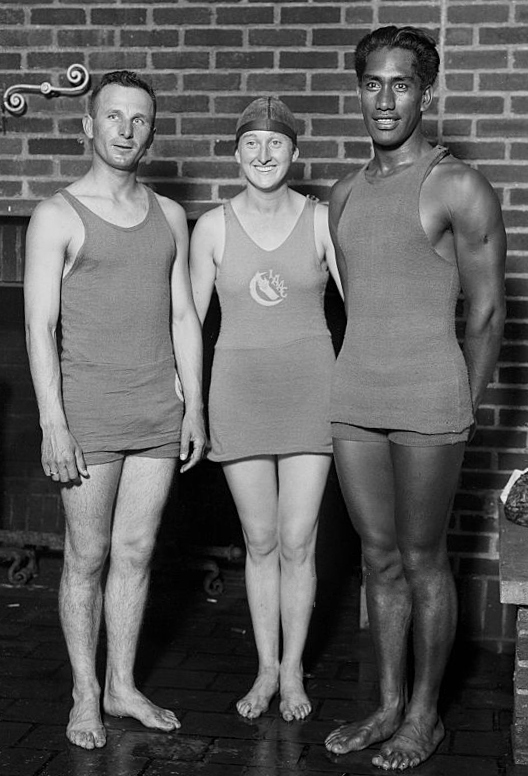 From left to right, American swimming champions Ludy Langer (1893 - 1984), Claire Galligan and Duke Kahanamoku (1890 - 1968, right), circa 1920.